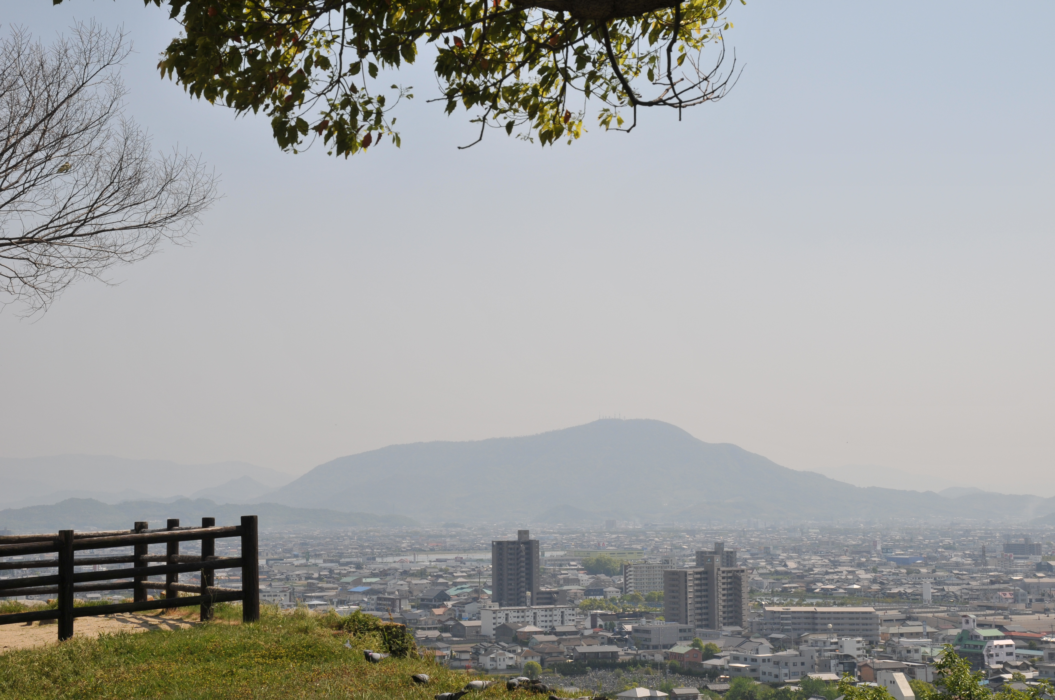 Mt. Zōzasan and Sanuki plain from Marugame castle